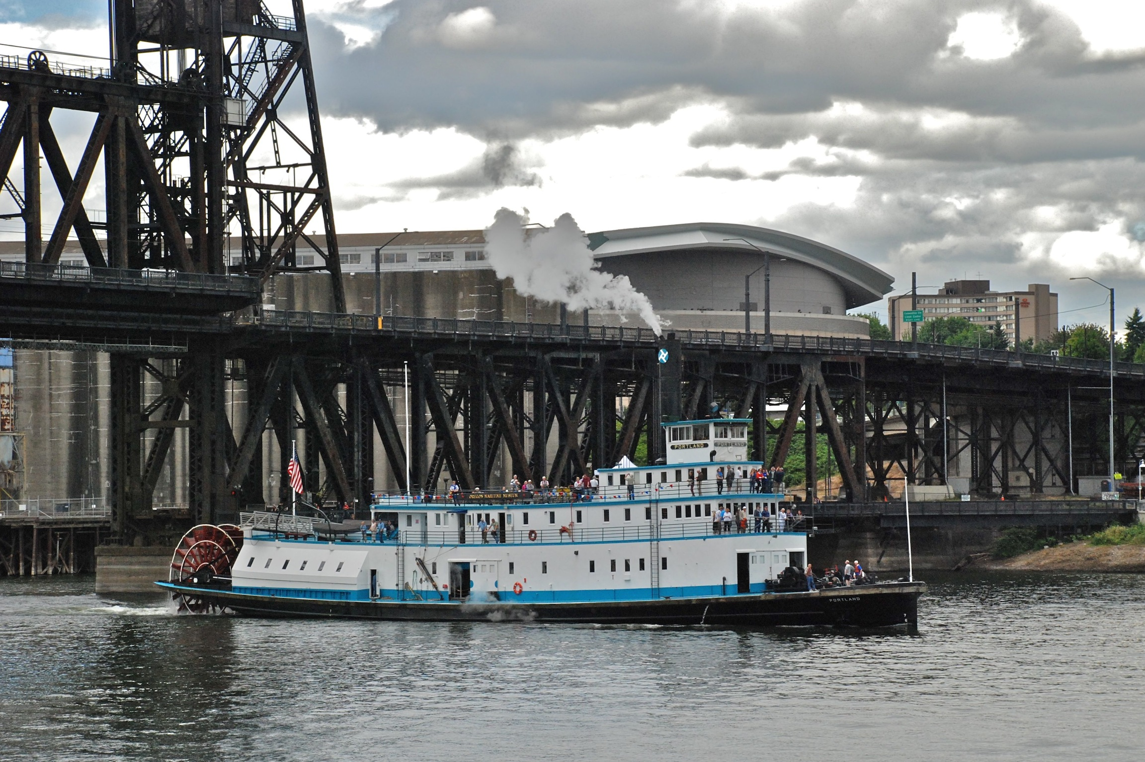 The historic steam tug Portland, a 1947 sternwheeler based in Portland, Oregon, United States, is listed on the U.S. National Register of Historic Places (NRHP). It serves as the home of the Oregon Maritime Museum, but is fully operable and occasionally makes excursions. It is pictured arriving back in Portland at the end of a cruise to St. Helens, Oregon, and has just passed under the 100-year-old Steel Bridge. The Rose Garden arena is partially visible in the background.